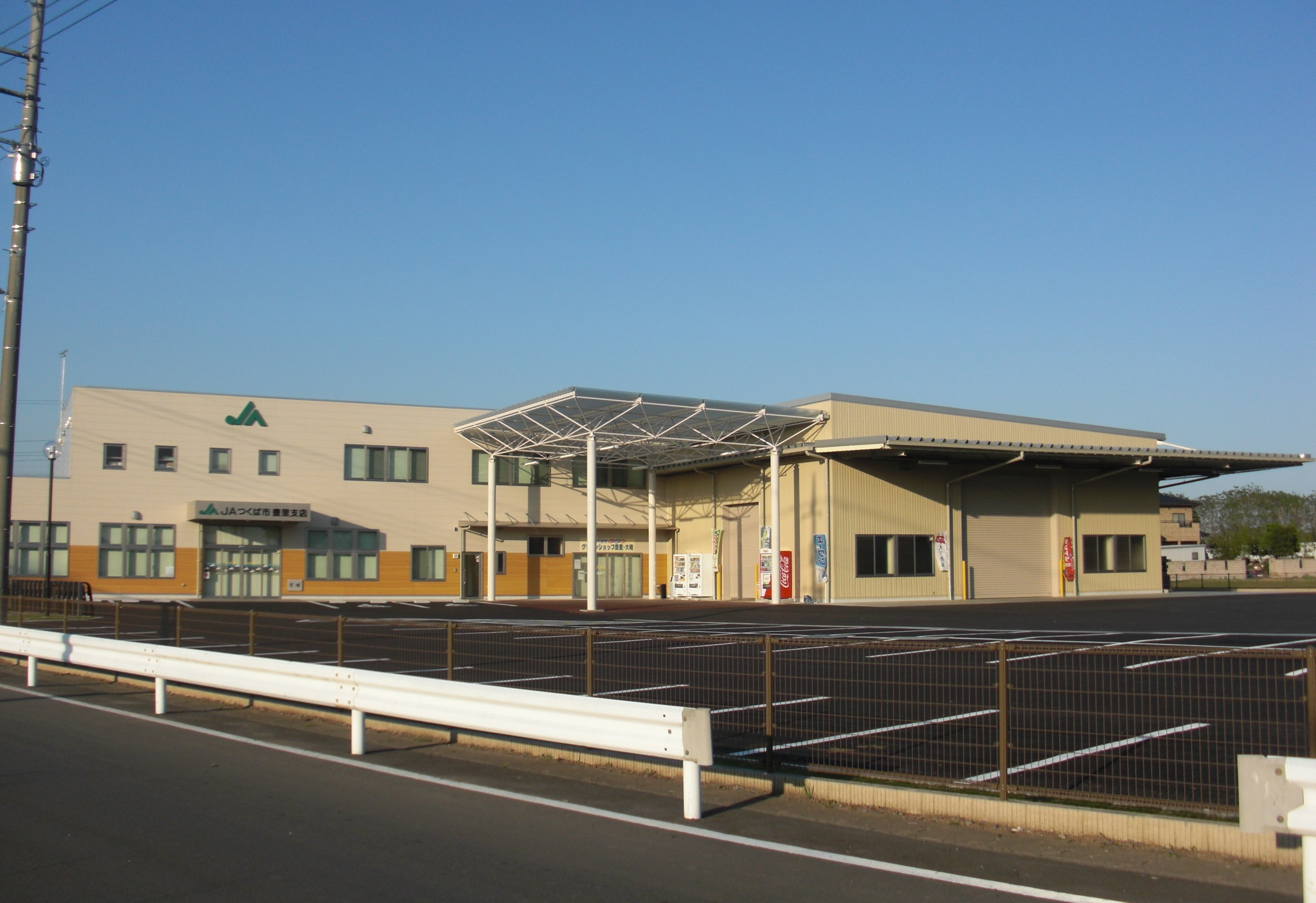 This branch is located in Tsukuba, Ibaraki, Japan.